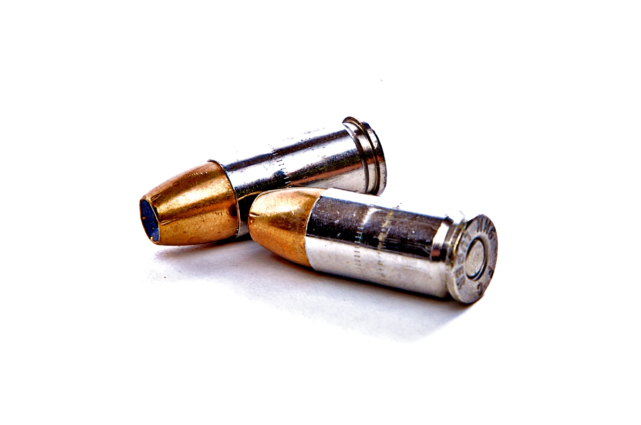 Two Federal Premium Hydra-Shok jacketed hollow-point 9mm handgun rounds photographed against a white background.